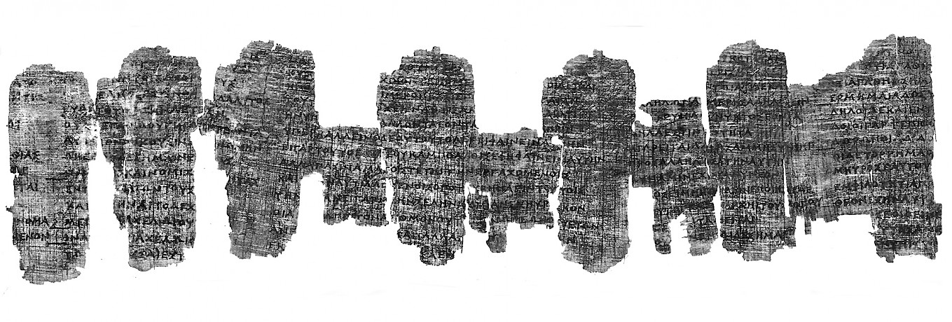 Derveni papyrus